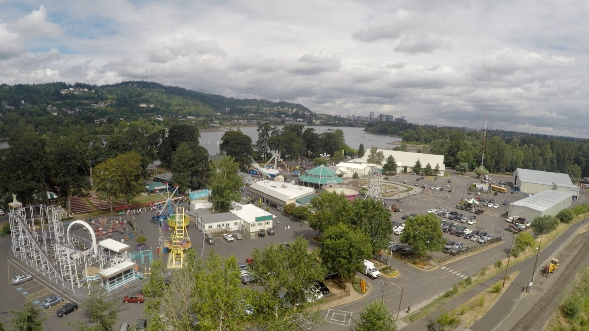 Areal Shot of Oaks Amusement Park in Porland, Oregon